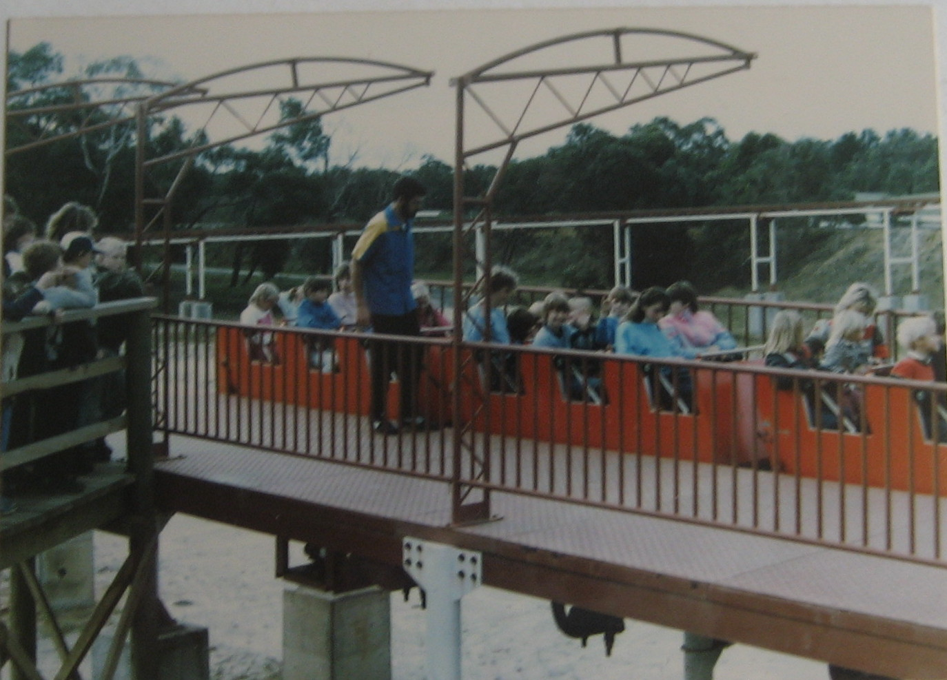 a pic of the Leasureland roller coaster